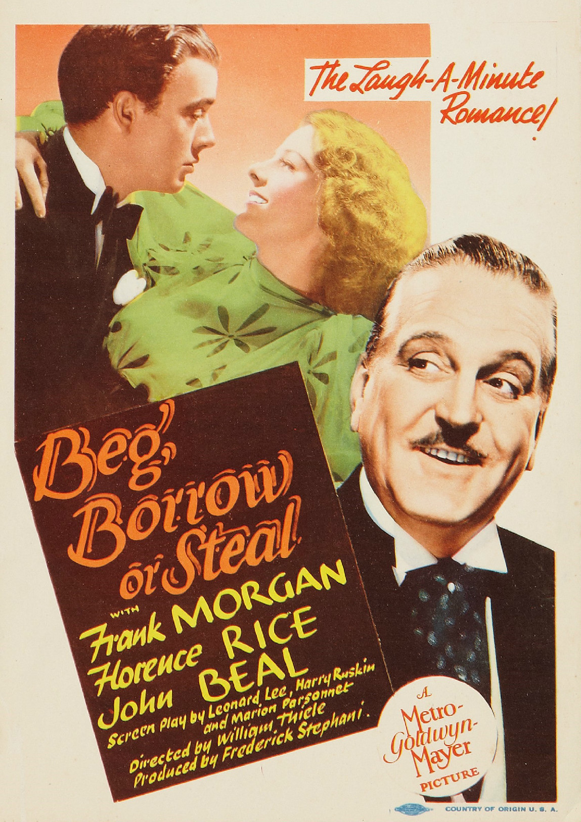 Window poster for the 1937 film Beg, Borrow or Steal.